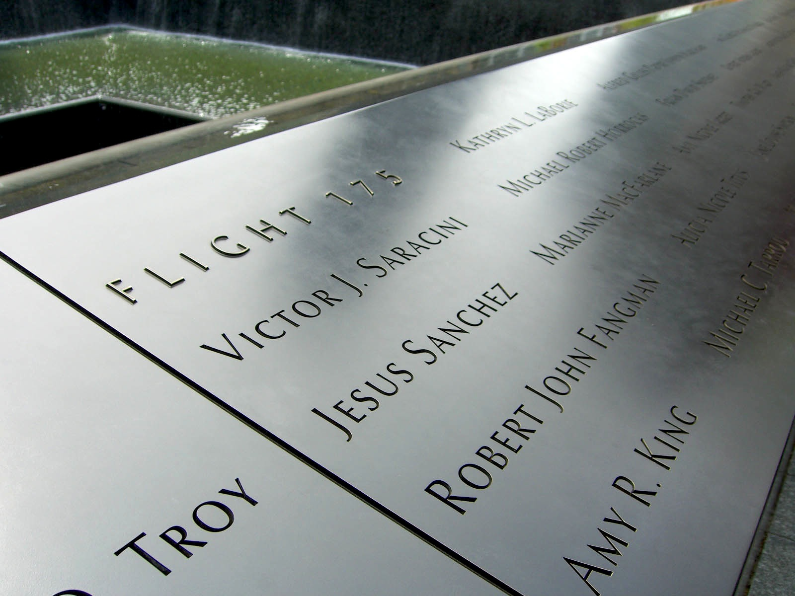 The names of passengers and crew of United Airlines Flight 175 on Panel S-2 of the South Pool of the National September 11 Memorial in Manhattan, as seen on April 28, 2012. This photo was created by Luigi Novi. If you have any questions, you can contact me by sending me an email or User talk:Nightscream